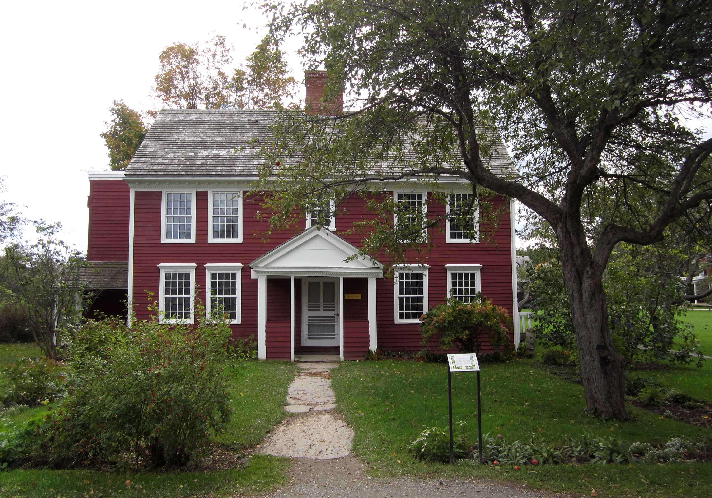 Exterior of the Dutton House, an exhibit building located at the Shelburne Museum in Shelburne Vermont.